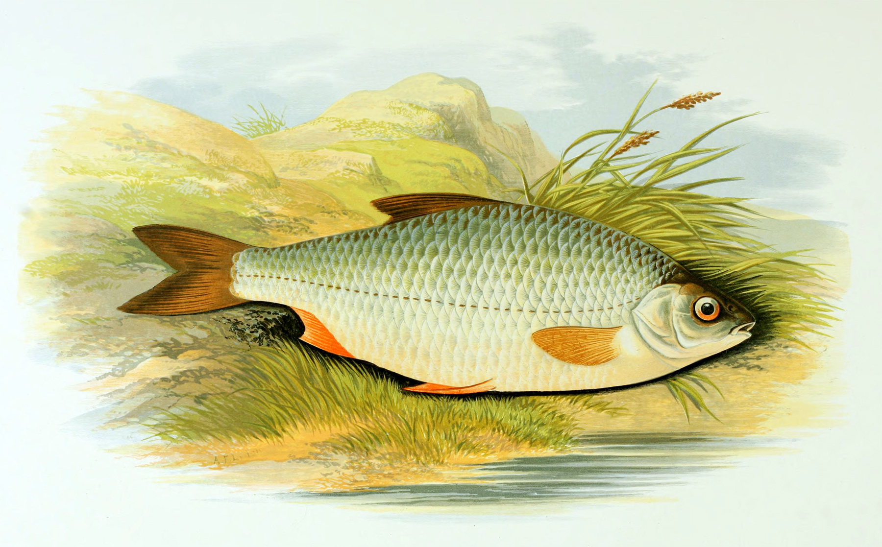 Rutilus rutilus